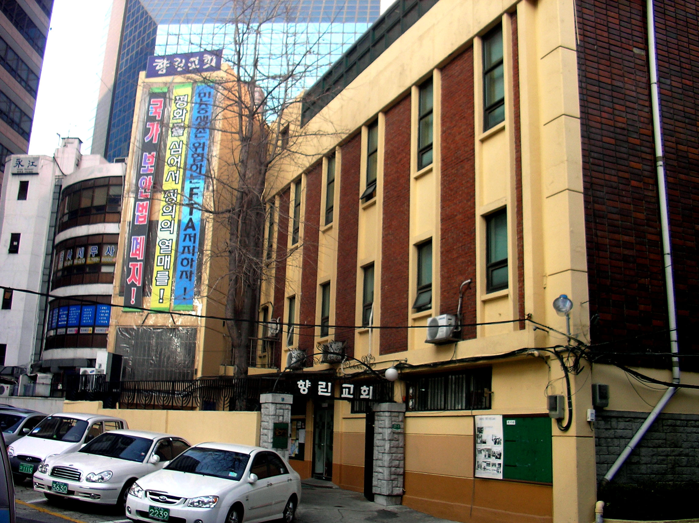 Hyanglin Church in Seoul 향린교회